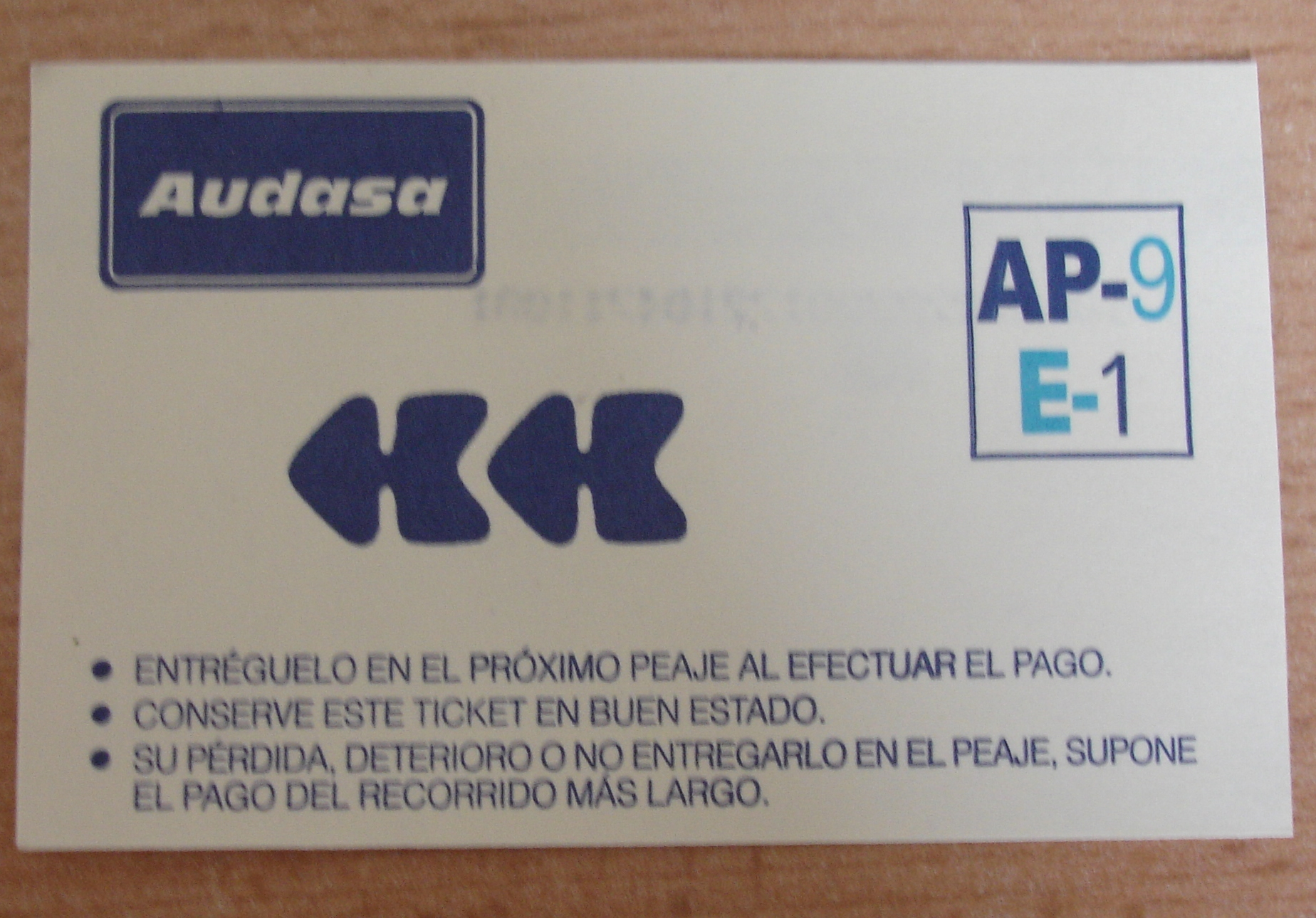 Toll ticket for Spanish Autopista AP-9 (motorway), Audasa company.